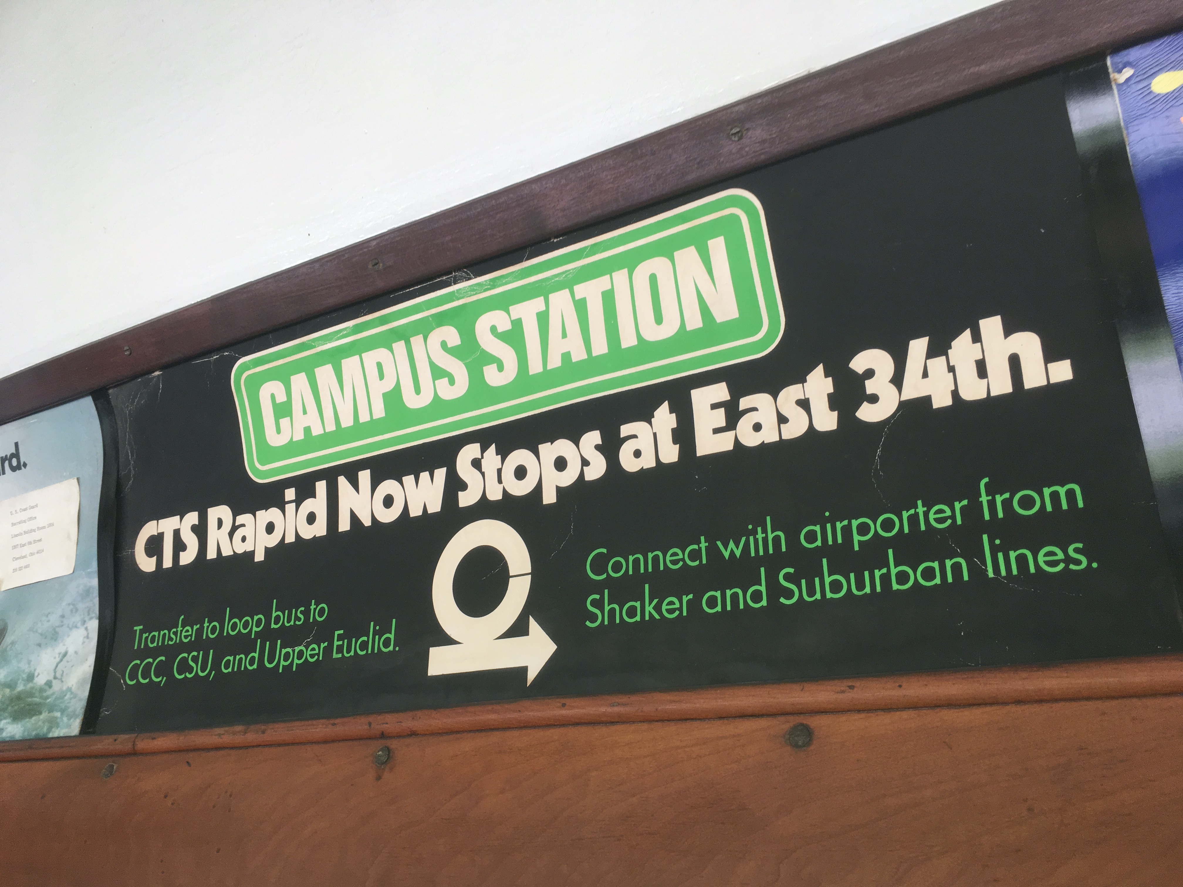 Cleveland Transit System ad for the once-new station at East 34th